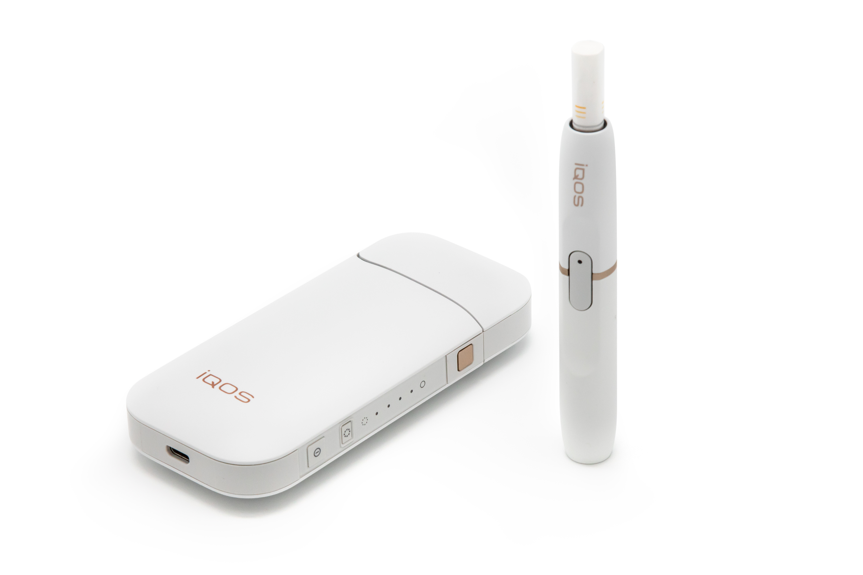 The IQOS of Philip Morris International is a heated tobacco smoking device into which is inserted a short cigarette (charger shown on the left).